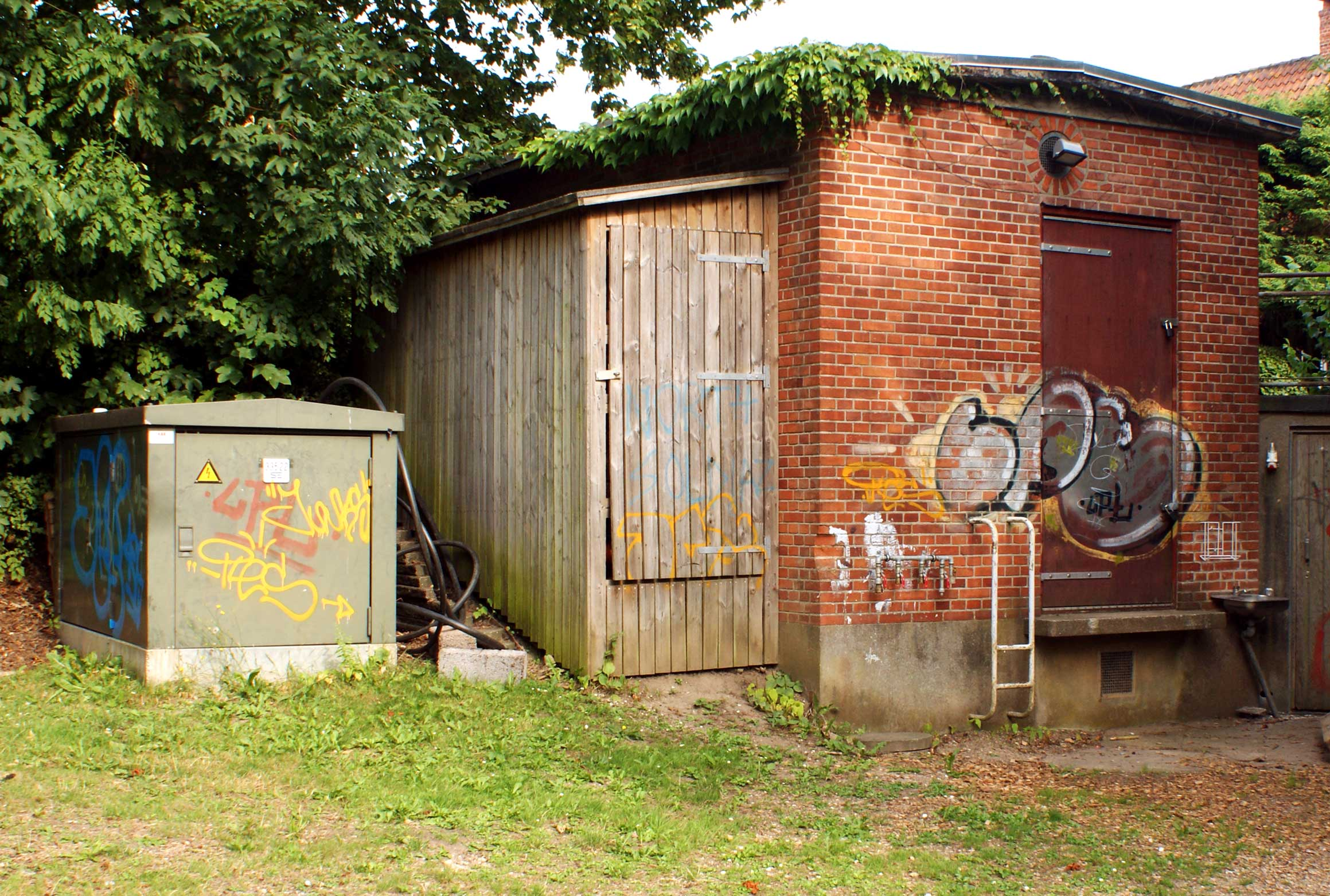 New and old distribution substation in the park Kløften in Haderslev, Denmark.